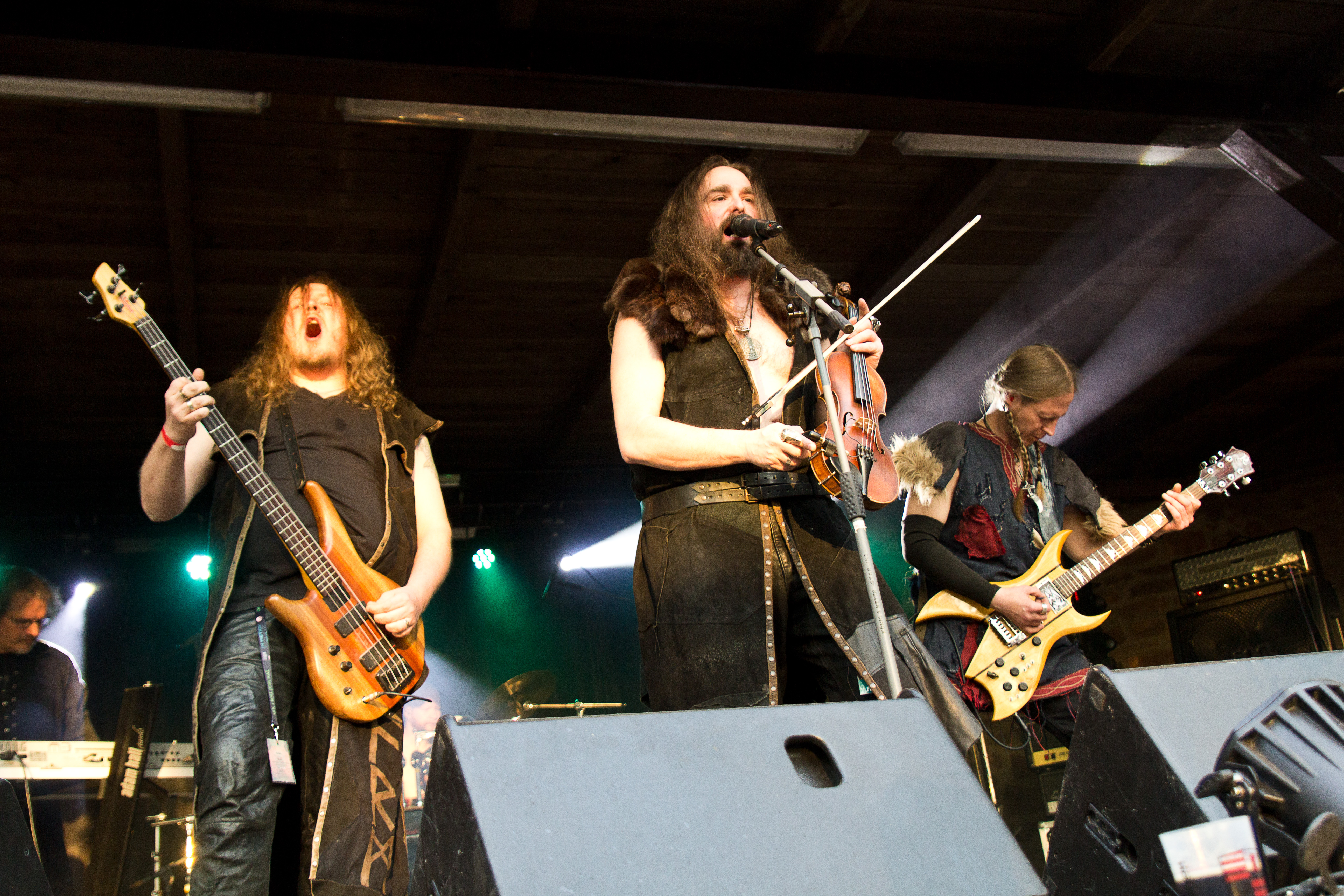 The German pagan metal band Black Messiah at the Dark Troll Open Air 2016 in Bornstedt/Germany.